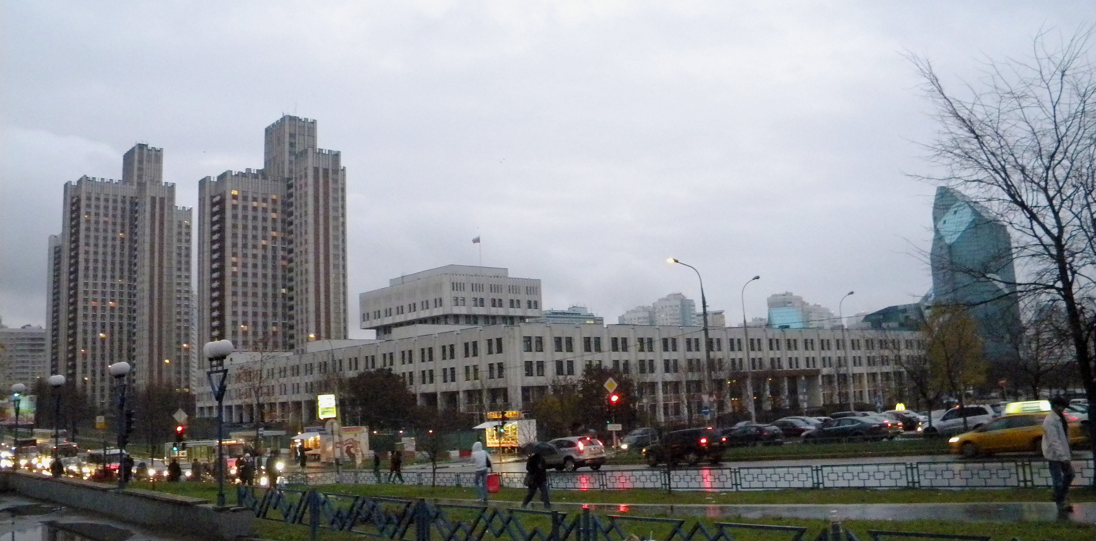 General view on the campus of the Russian Academy of Public Administration in Moscow (RAGS)